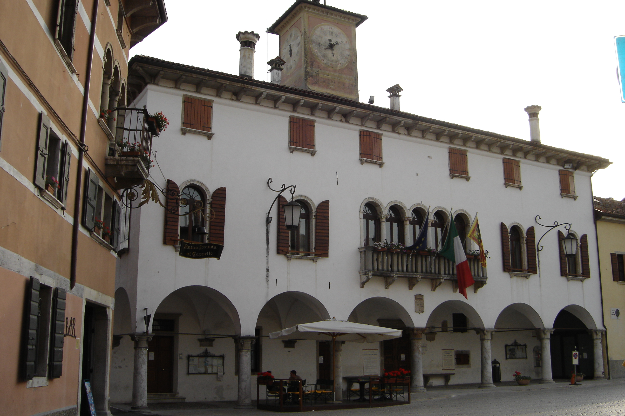 Mel town hall